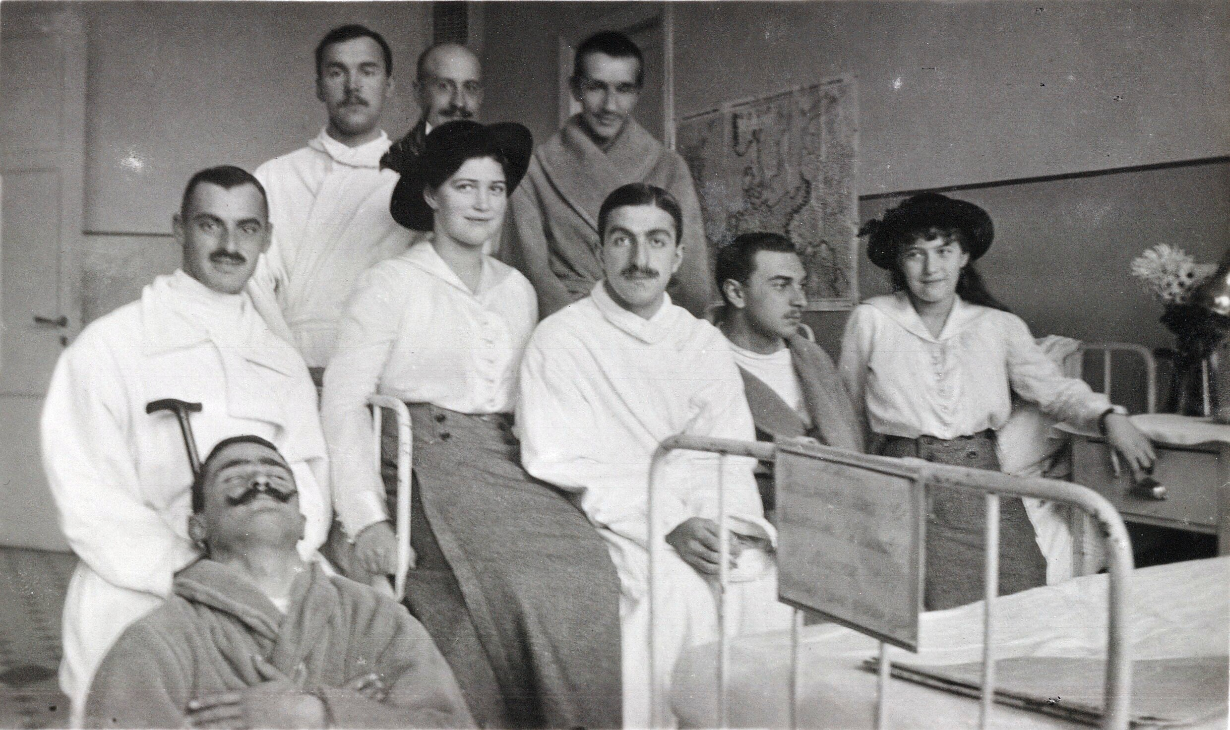 Grand Duchess Maria Nikolaevna, left, and Grand Duchess Anastasia Nikolaevna pose with wounded soldiers while visiting their hospital in about 1915. Original description: Marie and Anastasia visiting patients.